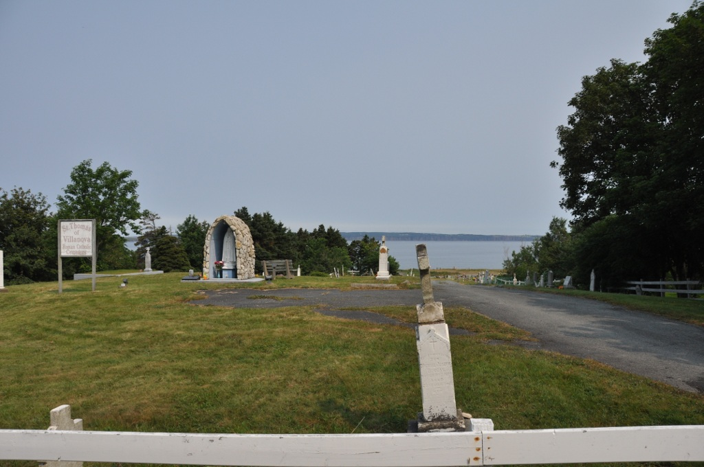 St. Thomas of Villa Nova Cemetery Municipal Heritage Site, Conception Bay South, Newfoundland.